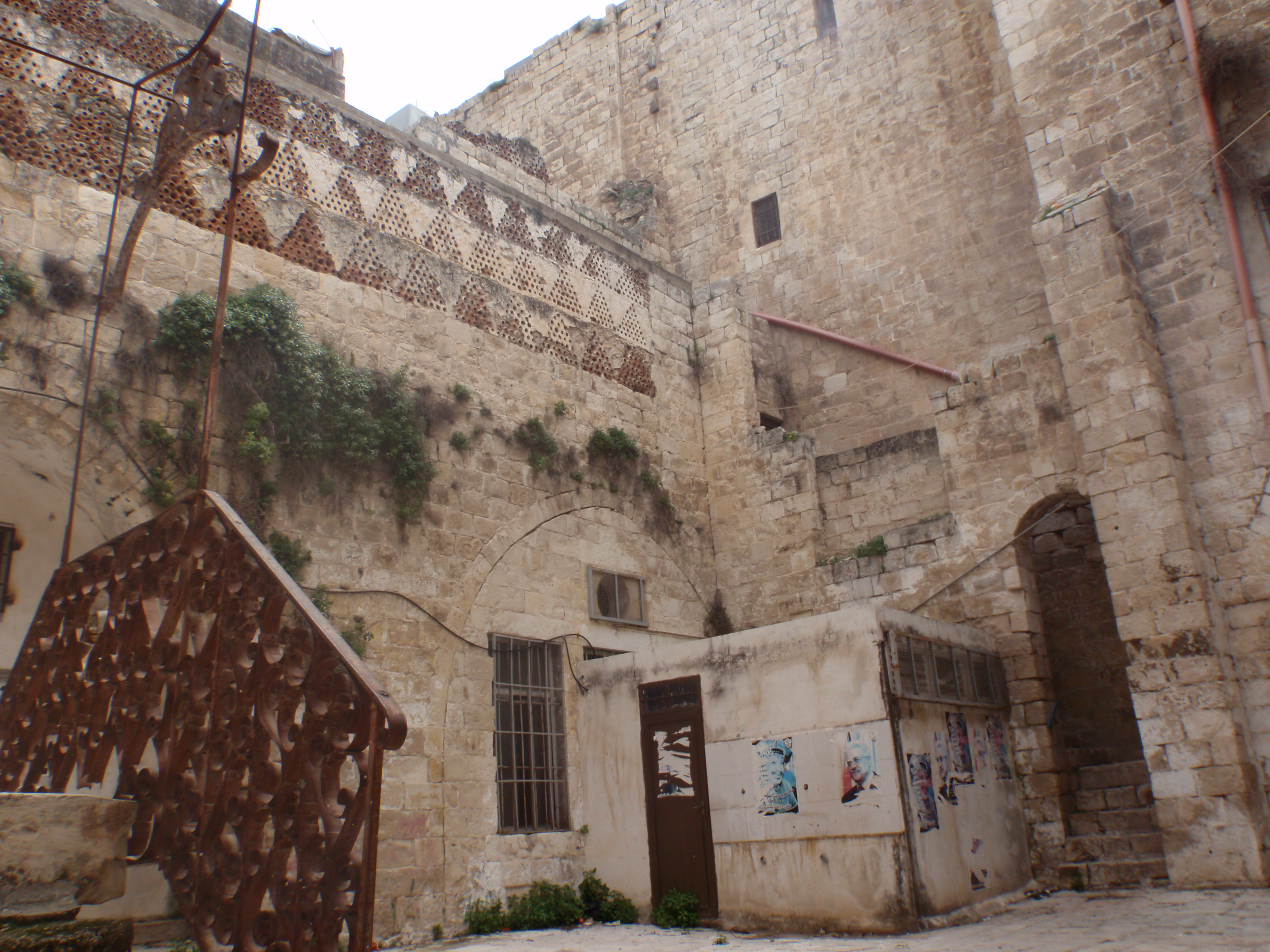 Interior or Abdulhadi Palace, Nablus, West Bank, Palestine